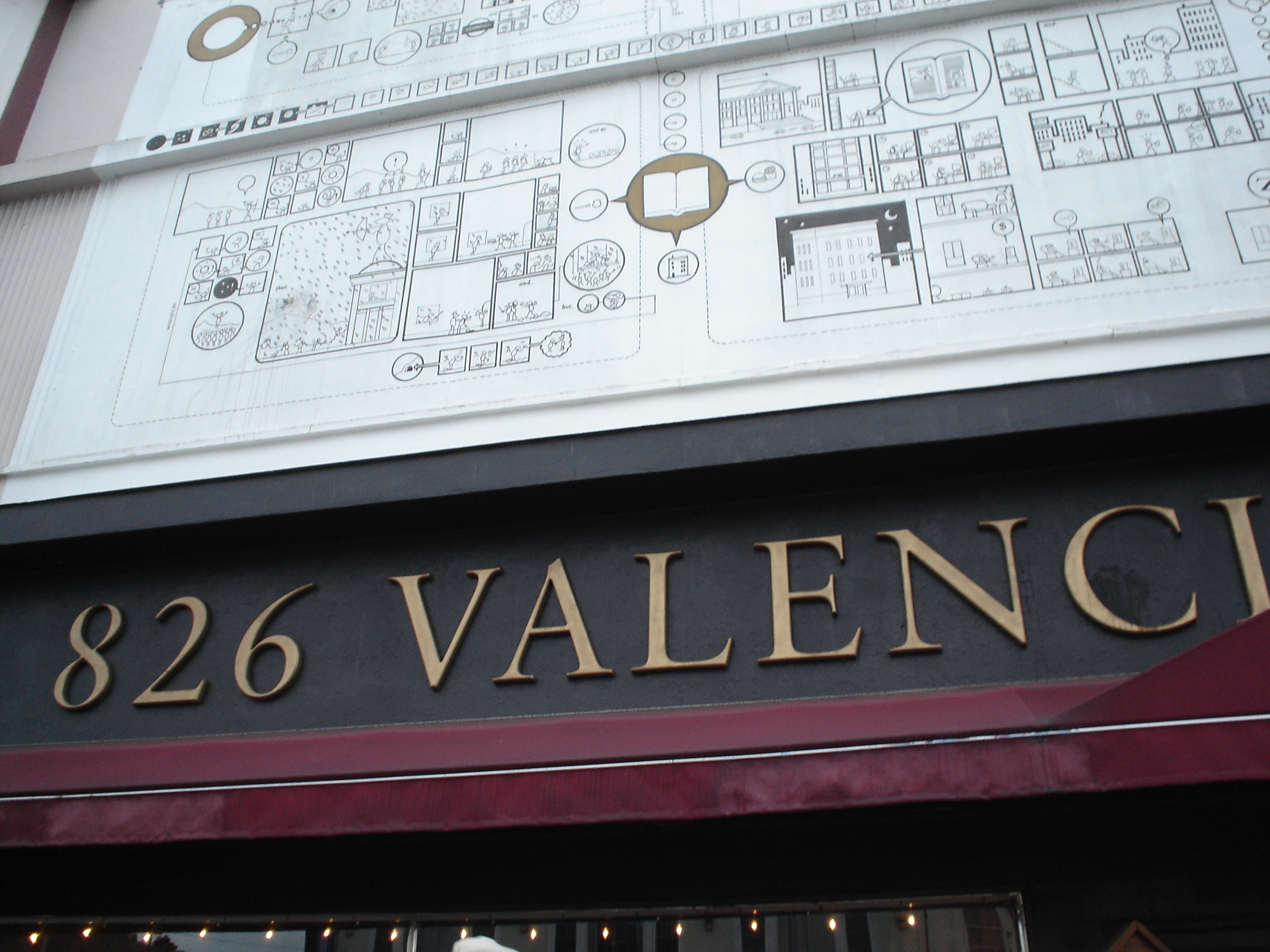 826 Valencia. HQ of McSweeney's Quarterly.